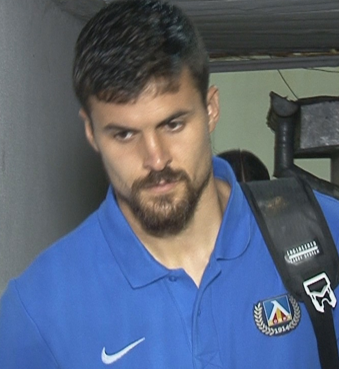 Portuguese footballer Nuno Reis